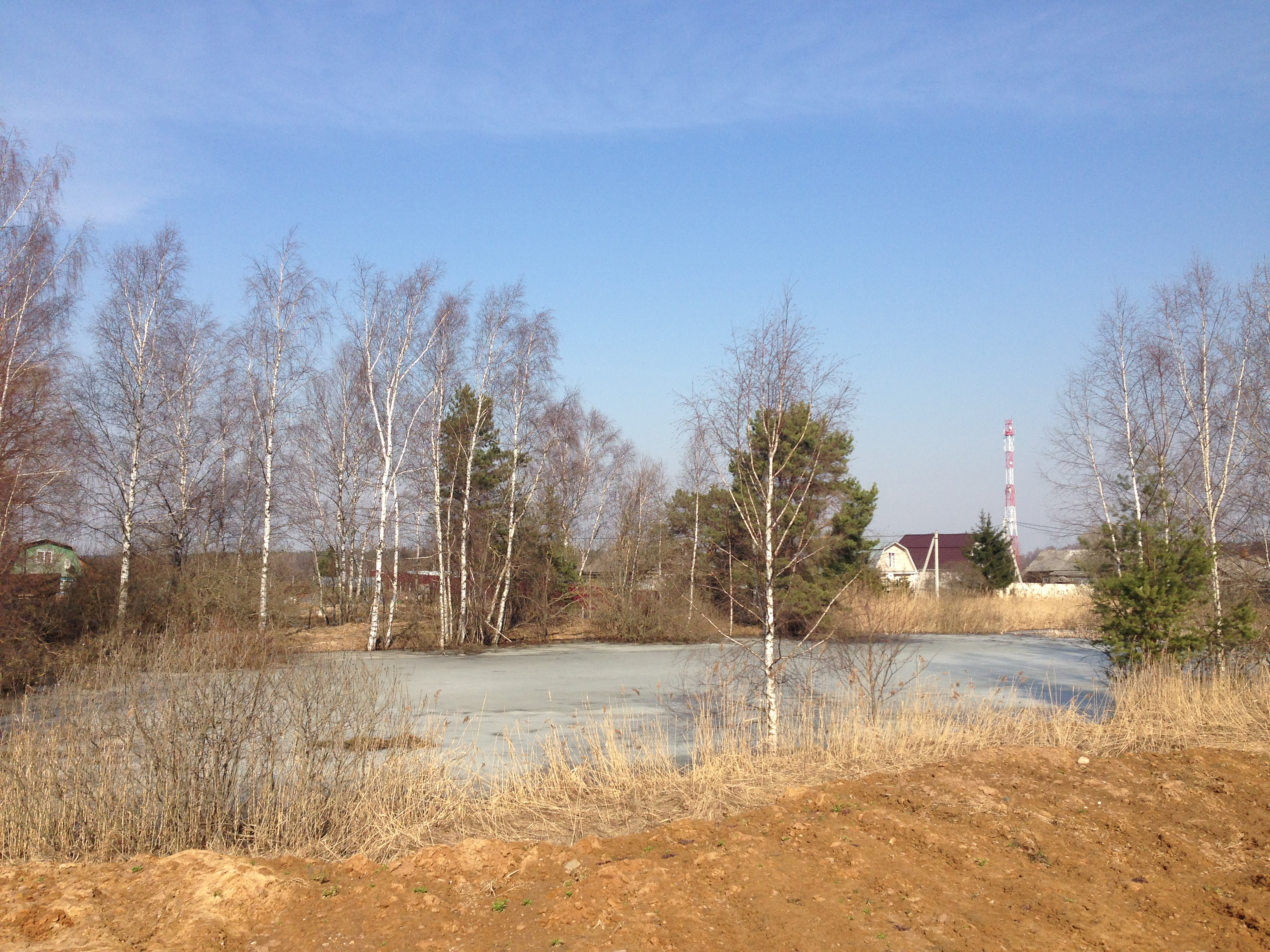 Tarusovo (Taldomsky district, Moscow oblast).